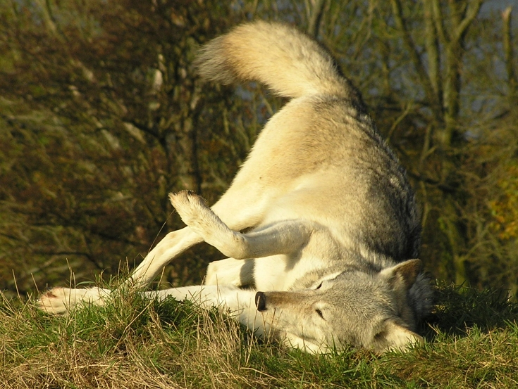 Duma, a wolf at the UK Wolf Conservation Trust, rolls to capture a scent atop a mound. She's rolling on some aftershave sprinkled on the ground a few minutes earlier. Photo taken by myself on the 13th November 2005.